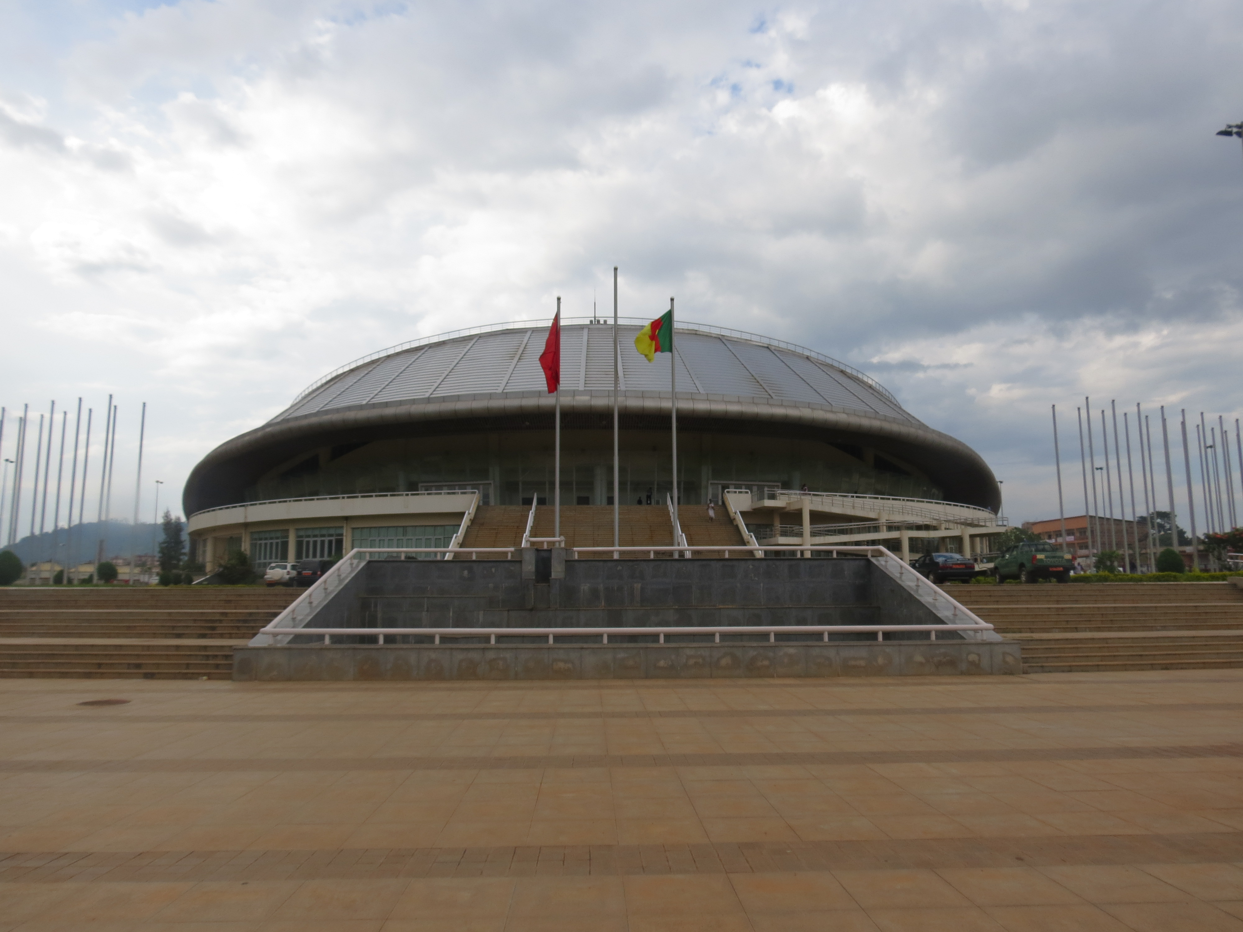 The Sports Palace in Yaoundé.